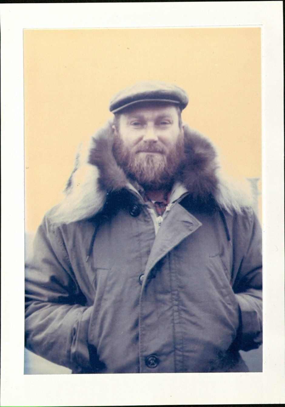 Dr. Eugene L. Boudette whilst on assignment with the United States Geological Survey in Marie Byrd Land, Antarctica. c. 1959